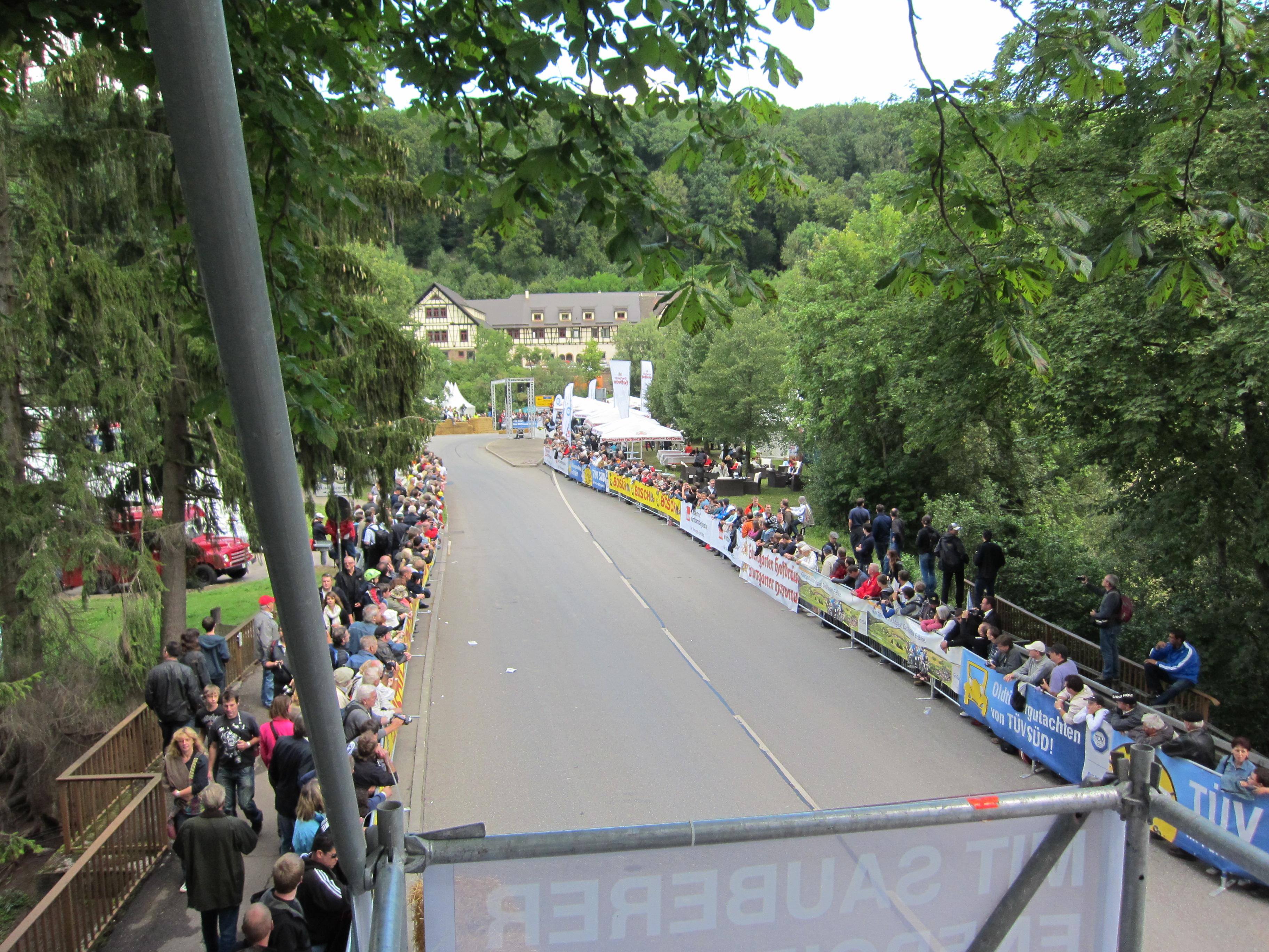 Glemseck (against the driving direction) – in the background, one can see the bend behind start/finish and the „Seehaus“ (= lake house): the photo was taken during 2011's Solitude Revival